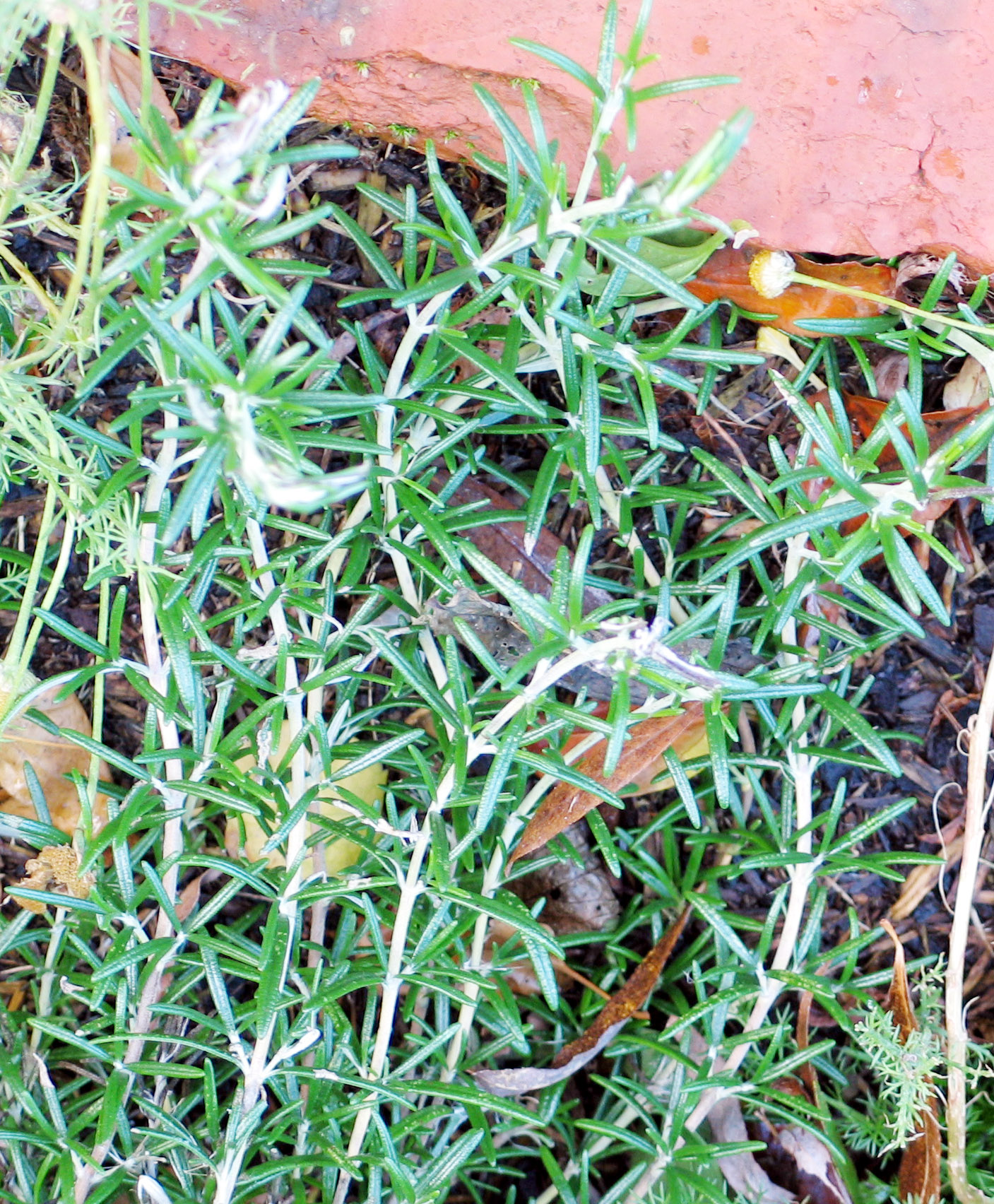 This is part of a rosemary plant.